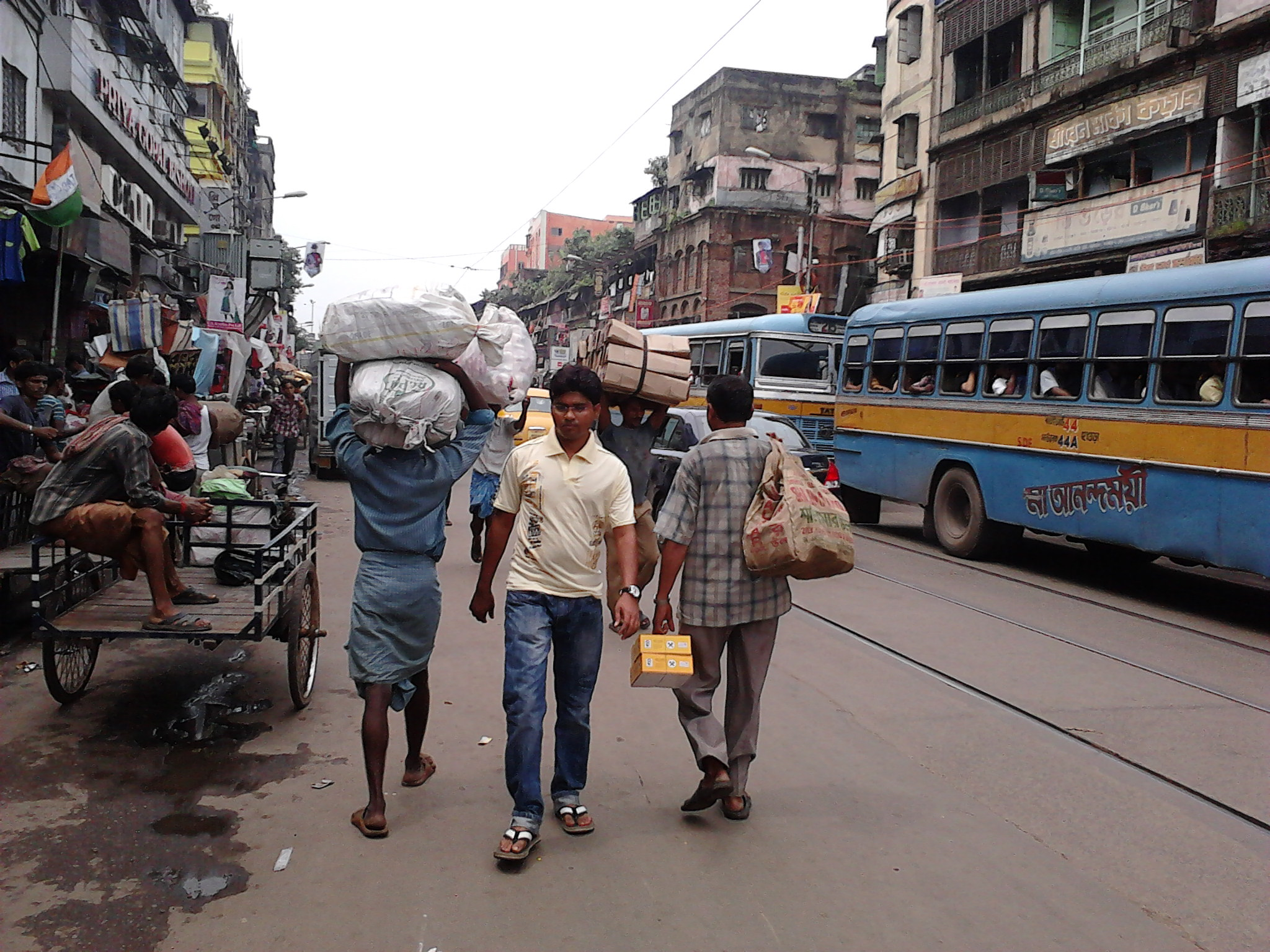 Roads in Kolkata. This media file is uploaded with India loves Wikipedia event.